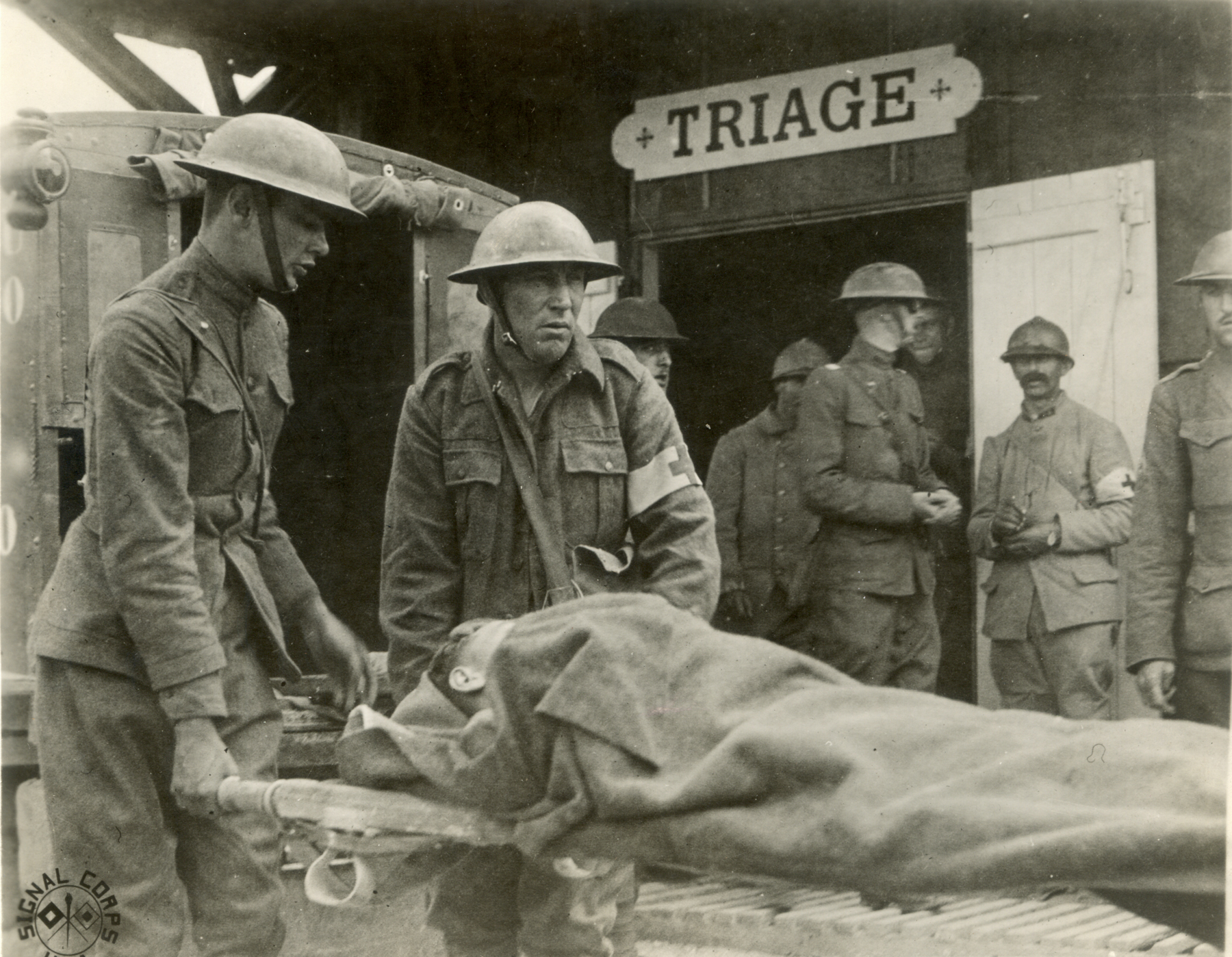 Wounded arriving at triage station, Suippes, France from sanitary train. Selected by Scott.